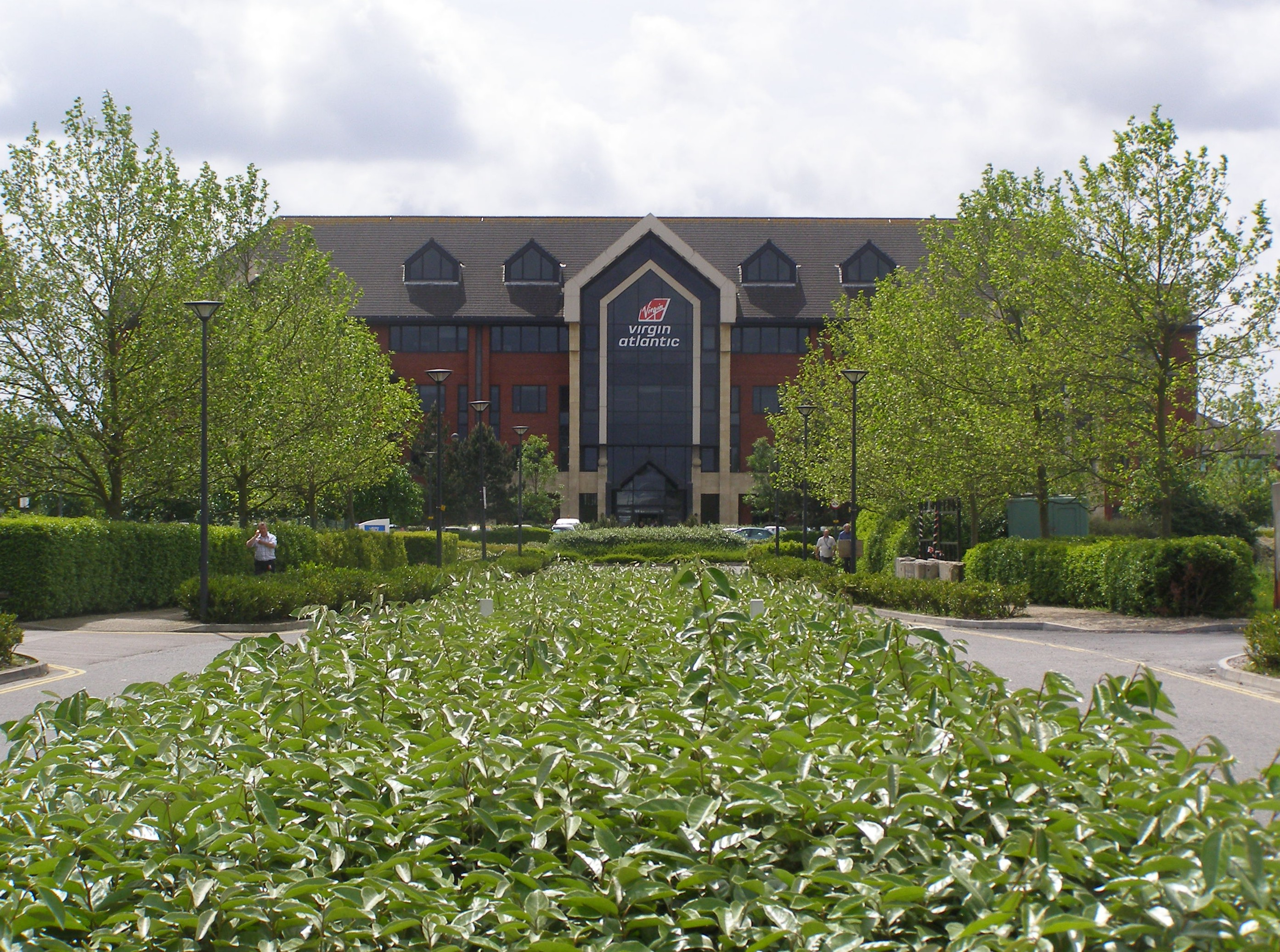 "The Office" at Manor Royal, Crawley, West Sussex, England - Head office of Virgin Atlantic and Virgin Holidays